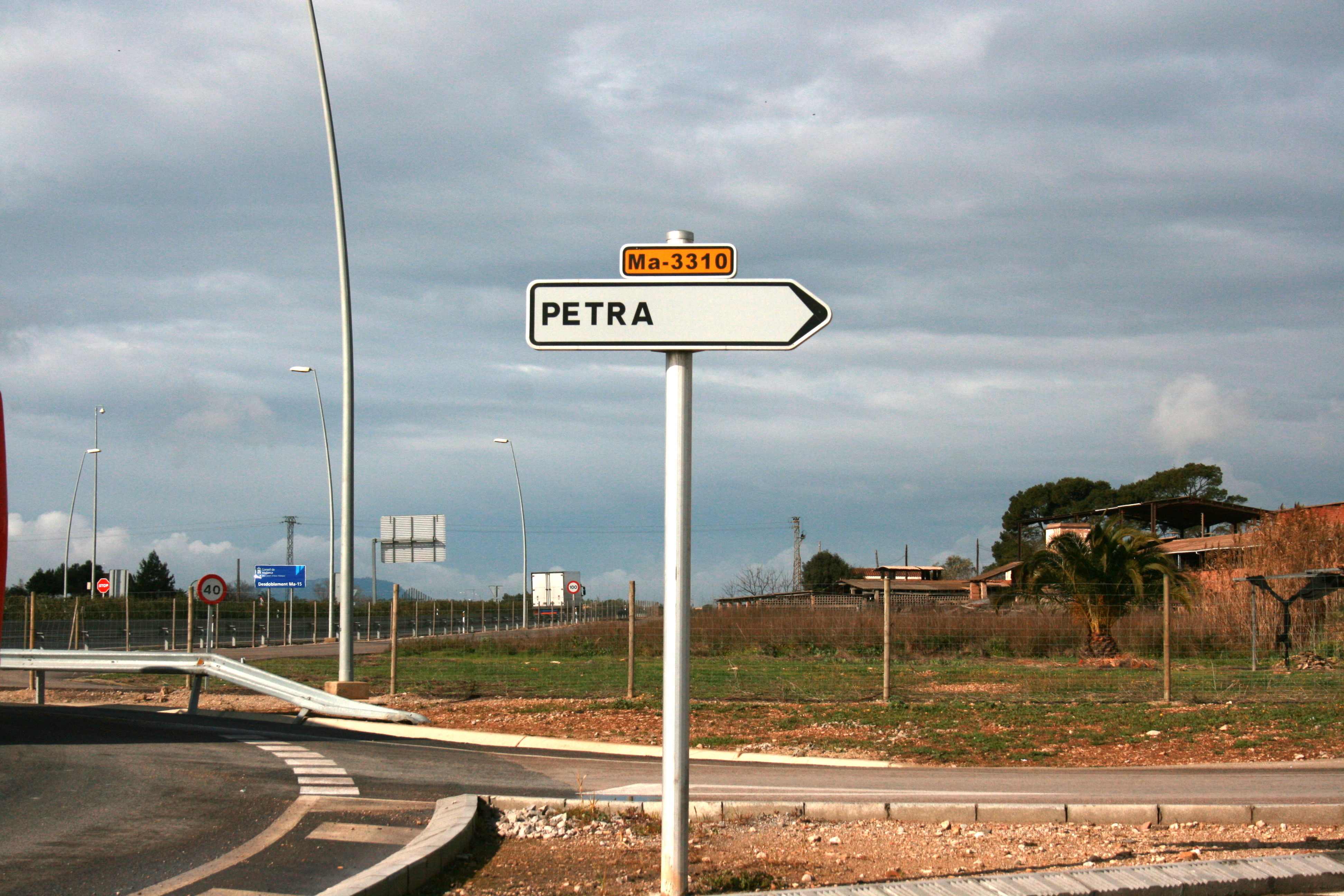 Roundabout of Ma-3301, Ma-3310, Ma-3340 and Ma-3341 with sculptures by Miquel Ginard in Ariany, Mallorca